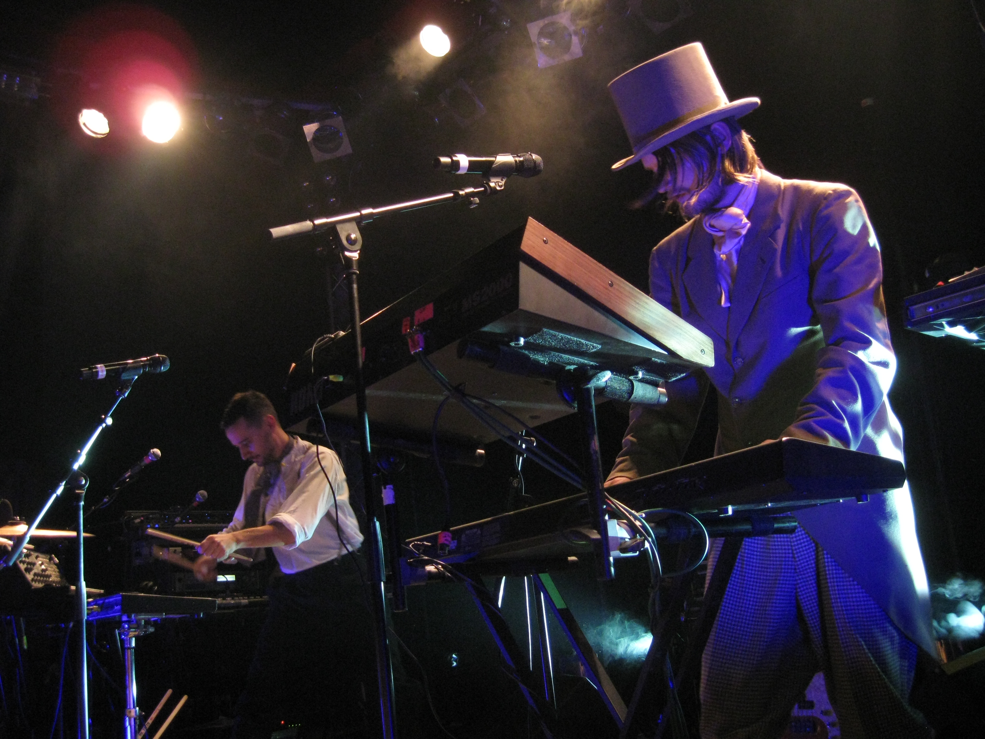 Röyksopp at a live performance in the Lido, Berlin